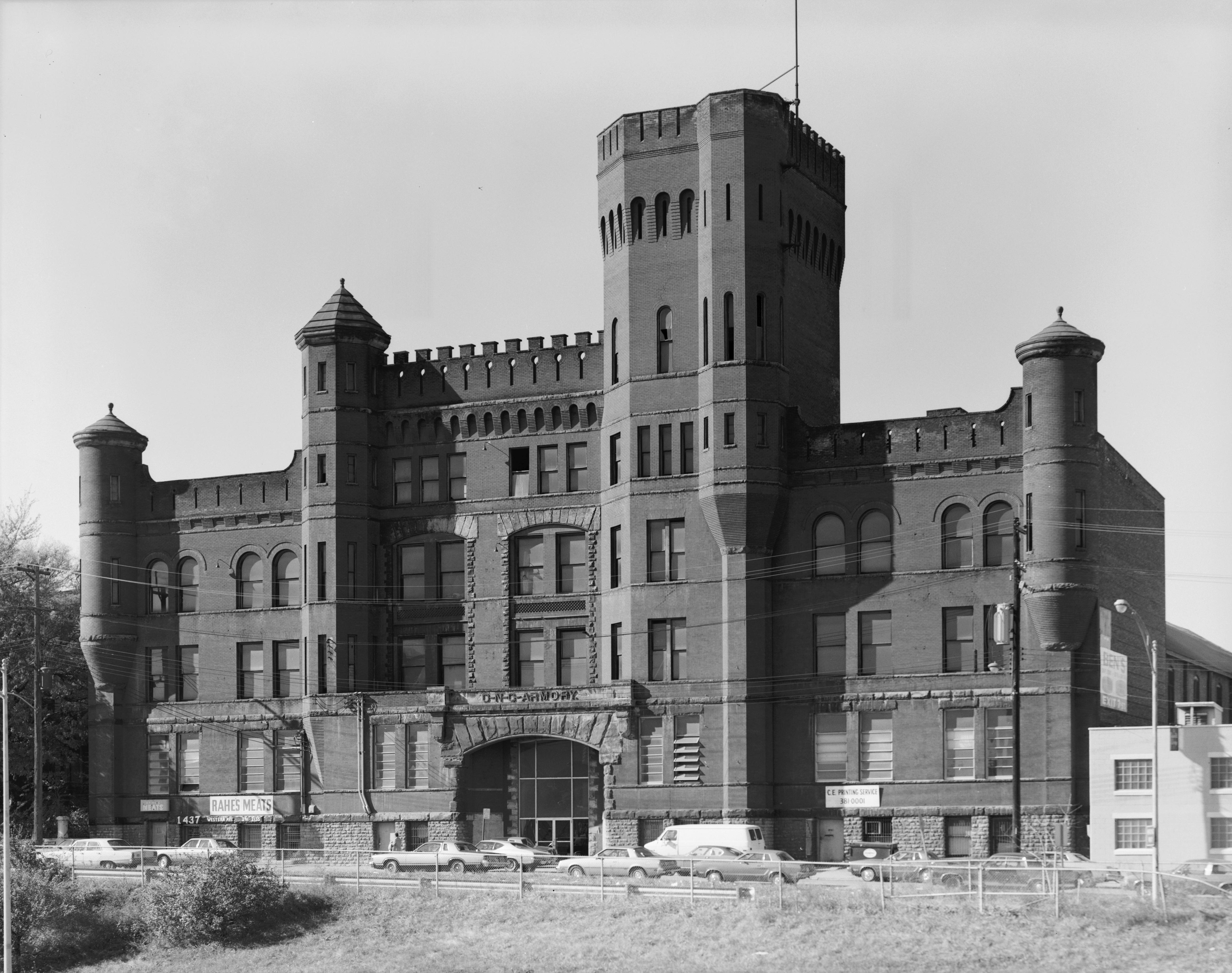 Front of the Ohio National Guard Armory, located at 1437-1439 Western Avenue in Cincinnati, Ohio, United States. Built in 1886, it is listed on the National Register of Historic Places.